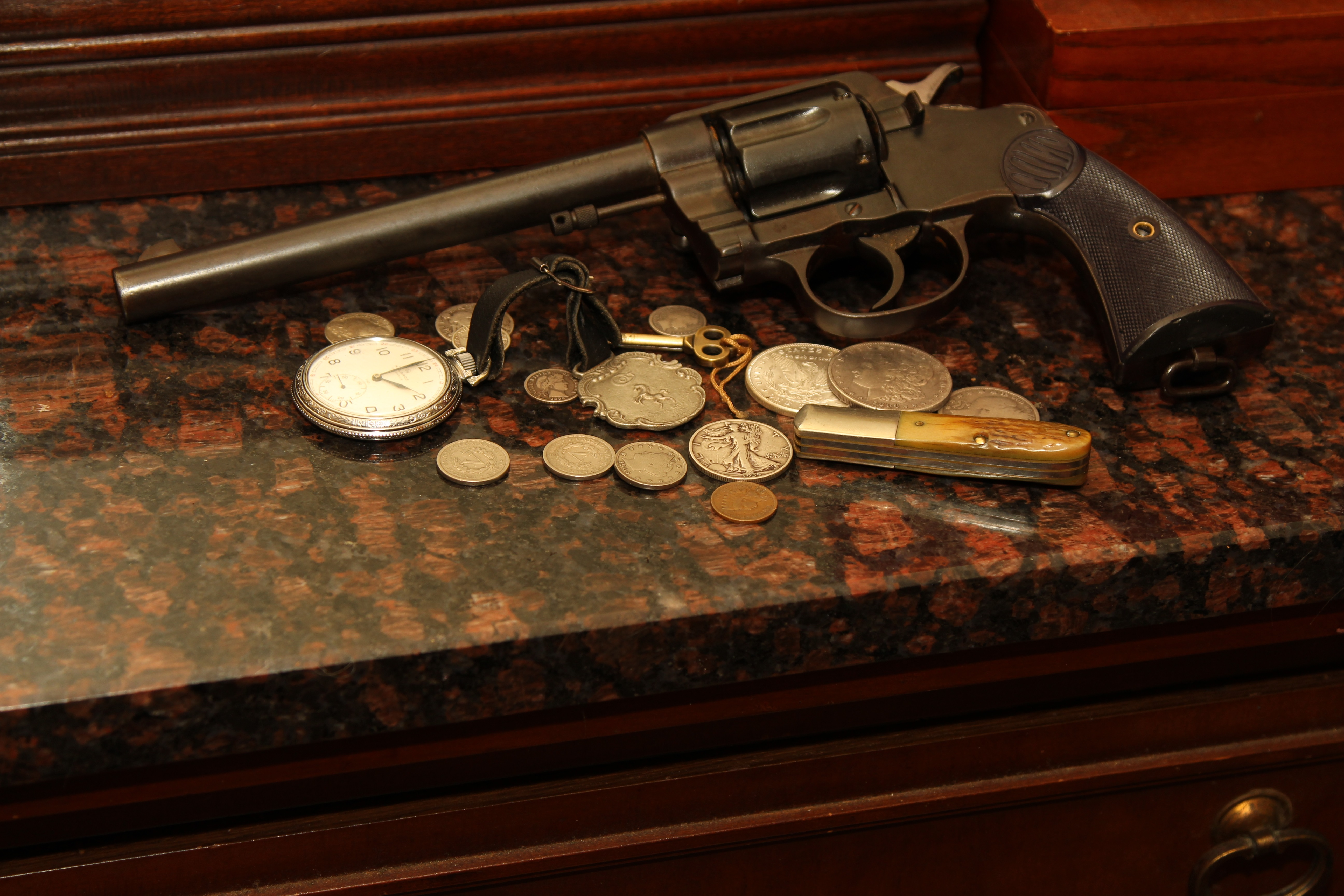 This is an early version of the New Service Colt patented 1898. This example is in 44WCF /.44-40. It has a 7.5'inch barrel and had flat lockwork springs that were later replaced with coil springs for durability. This example was provided by and is used with full permission of Mike Cumpston